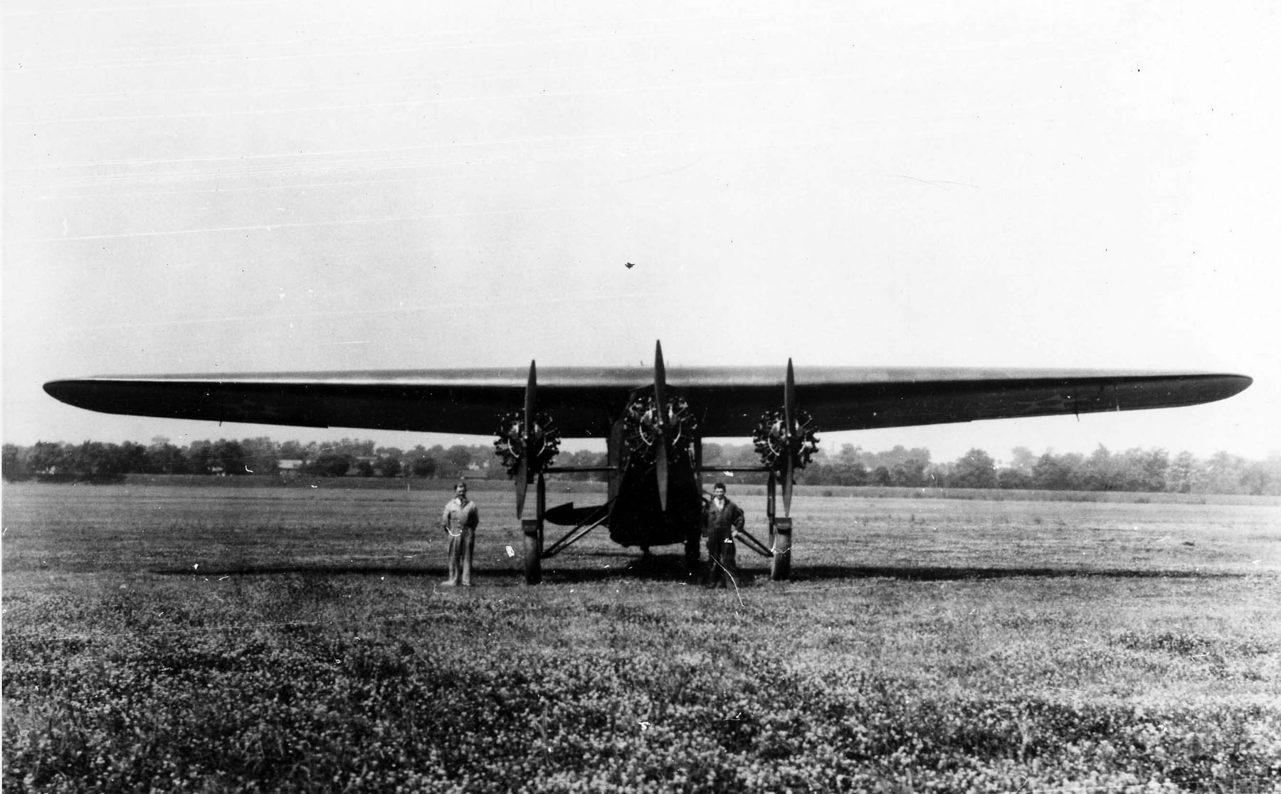 Atlantic-Fokker C-2 Bird of Paradise front view. (U.S. Air Force photo)